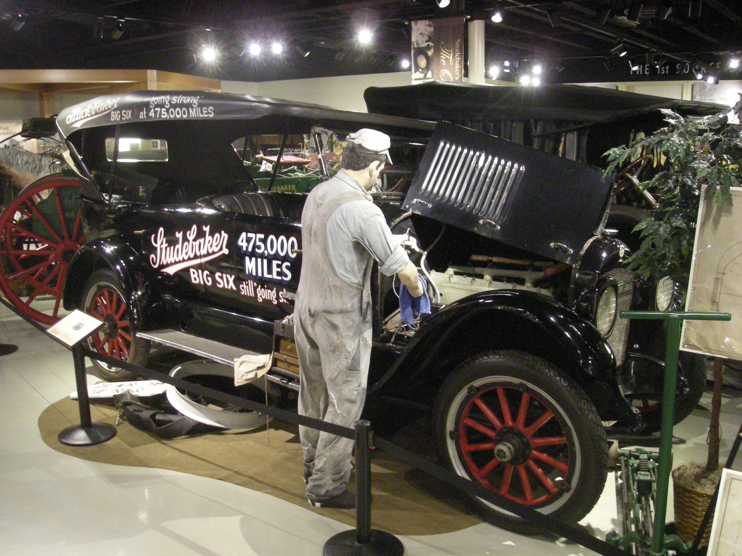 A 1919 Studebaker Big Six at the Studebaker National Museum in South Bend, Indiana (United States).